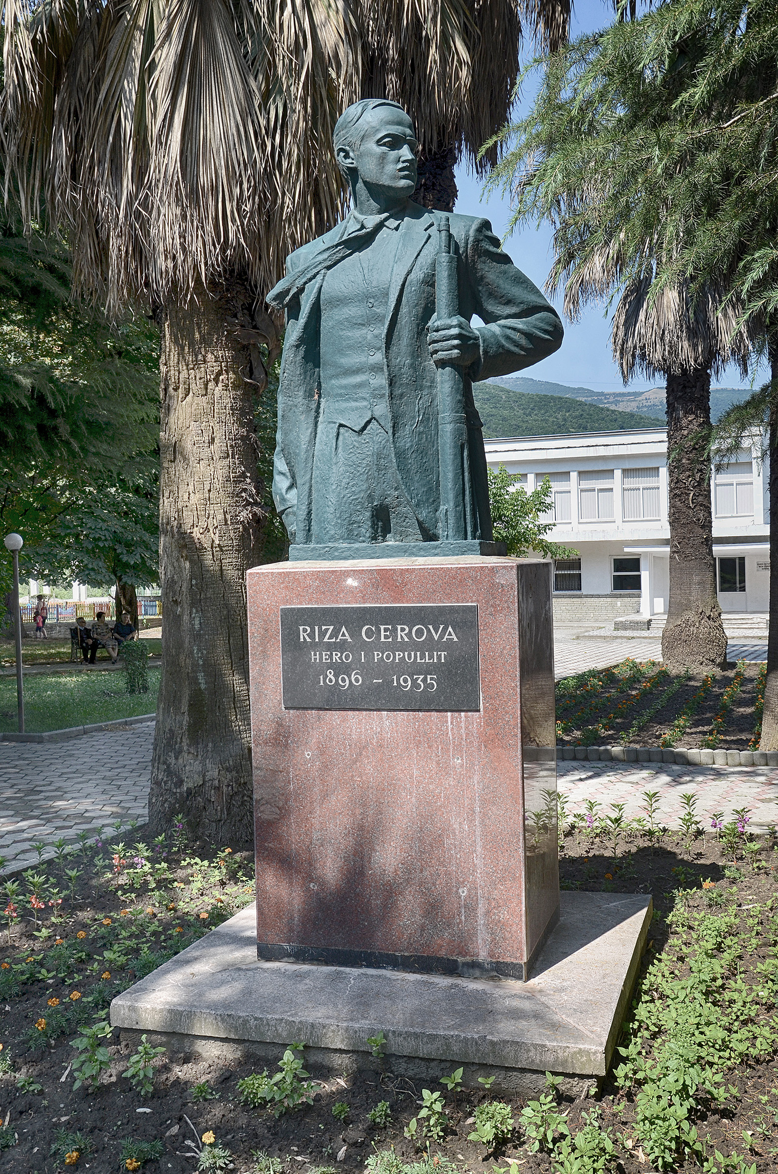 The Riza Cerova monument at the main square of Çorovodë, Skrapar, Albania